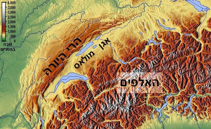 Topography of Jura Mountains Template:Eh